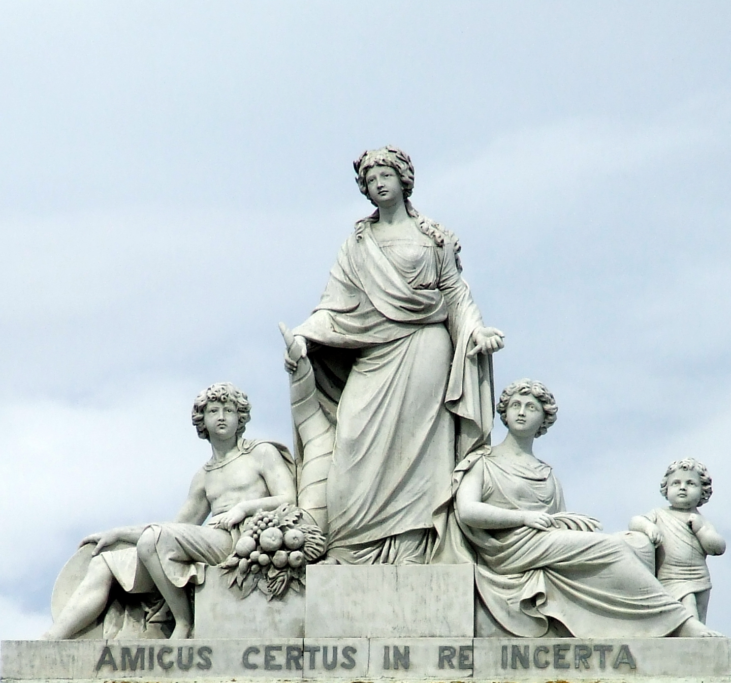 Part of the AMP Society Building, Oamaru